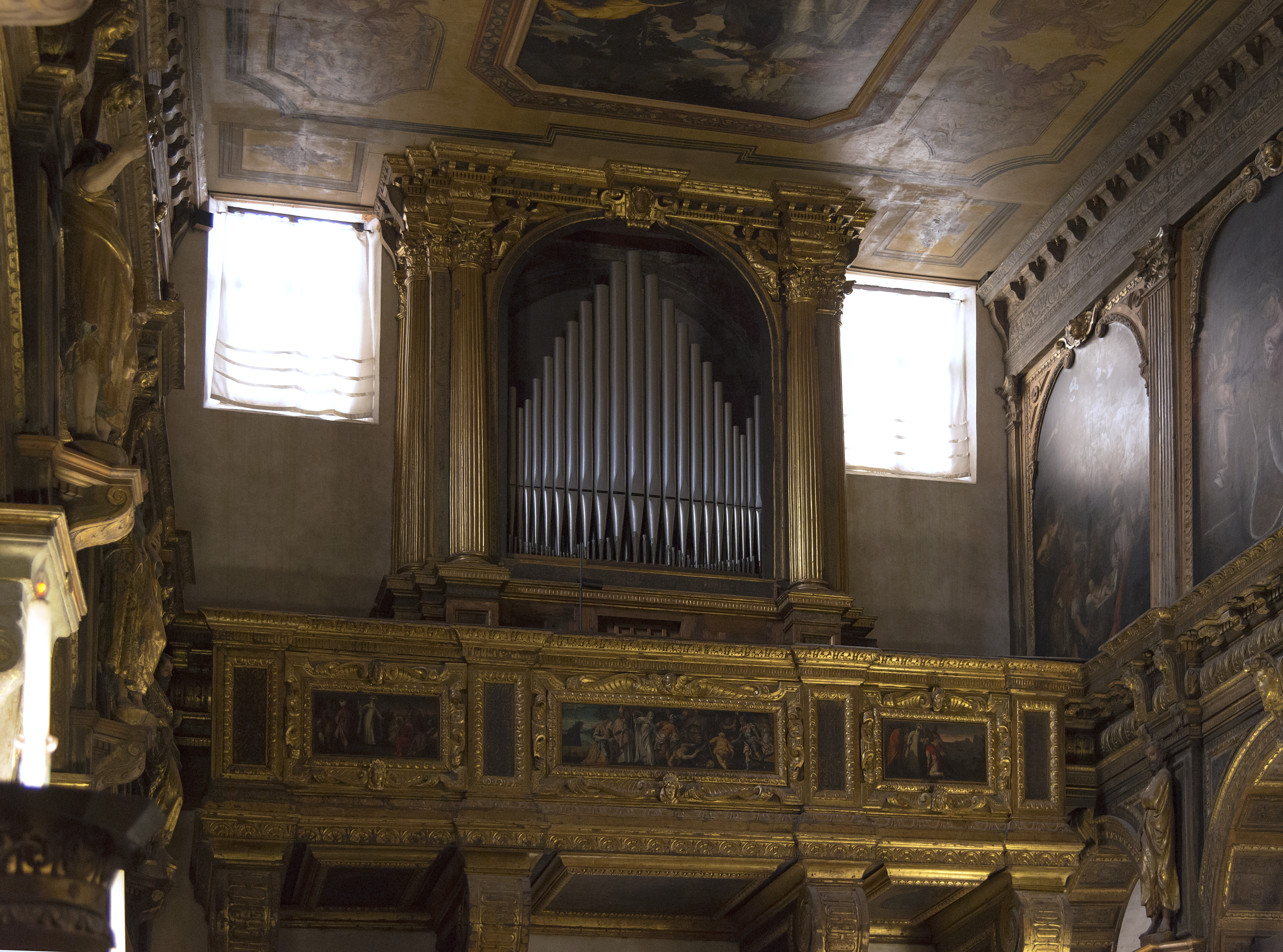 Church of San Nicolò dei Mendicoli Venice. Organ.